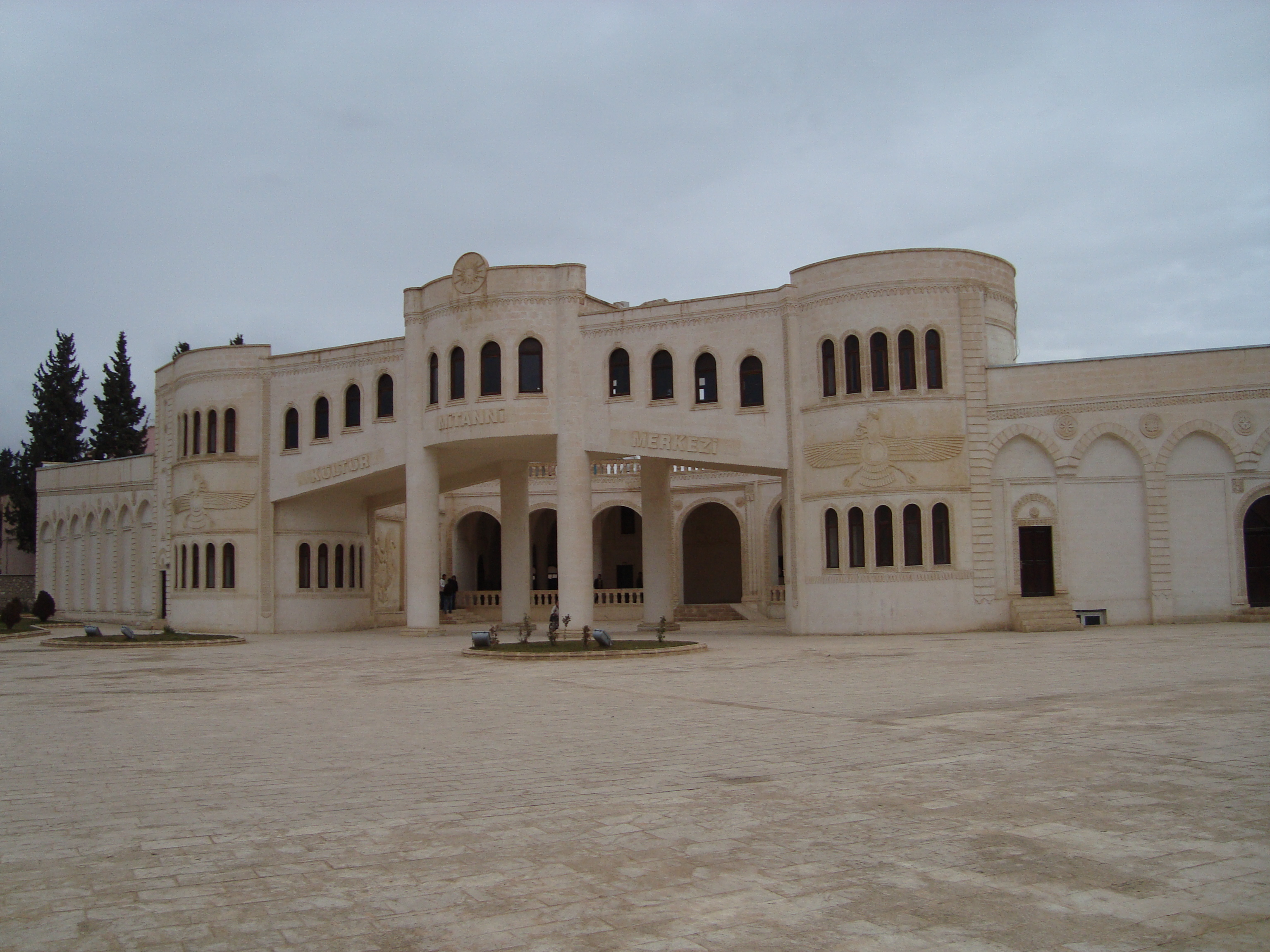 A photograph of Mitanni Culture Center located in Nusaybin, Mardin, a city in Turkey